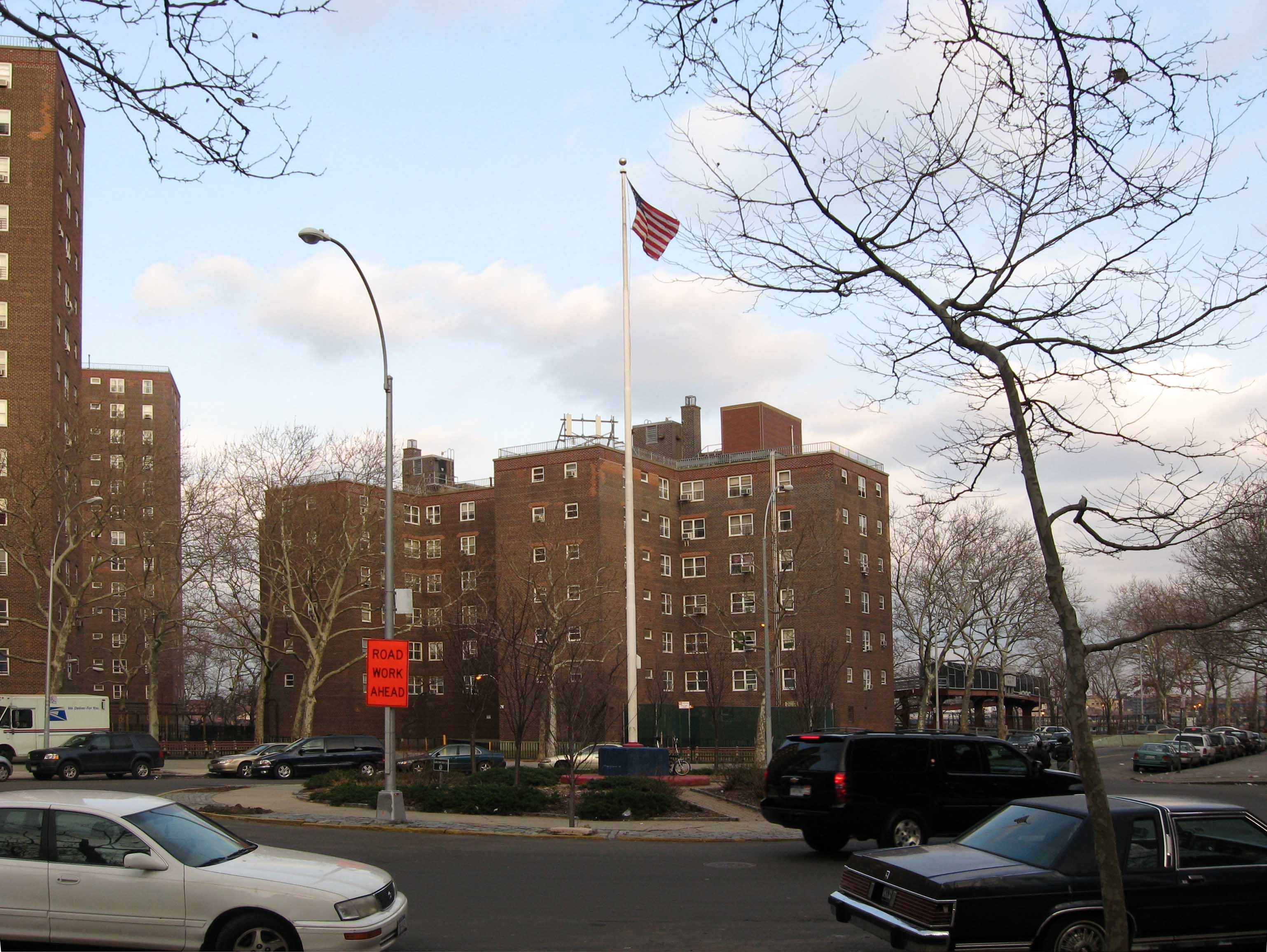 Looking northeast at the central flagstaff of Jacob Riis Houses, at East 10th Street east of Avenue D (Manhattan) on a mostly cloudy later afternoon in late winter.